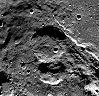 Clementine view (aerial-projected using LTVT) from Map-A-Planet.